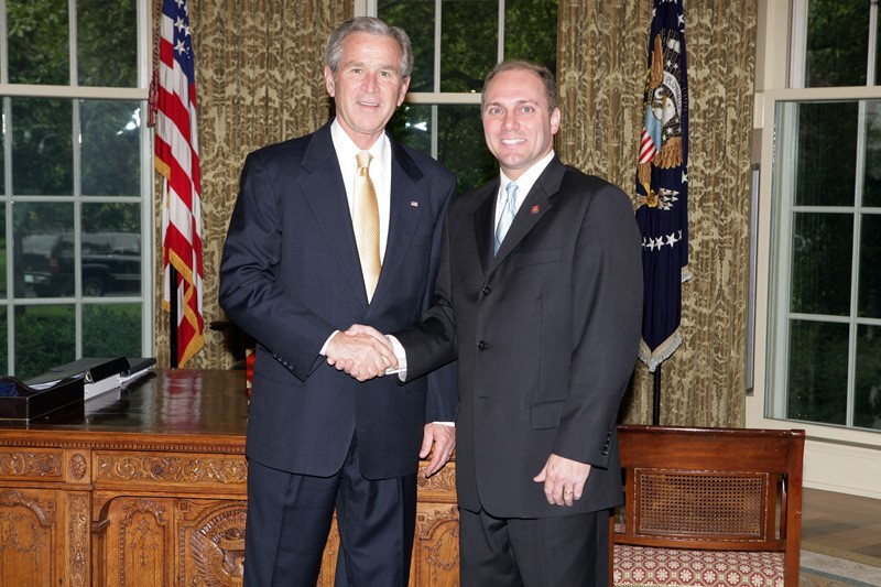 Congressman Steve Scalise with President George W Bush in the oval office in May. (5/20/2008)